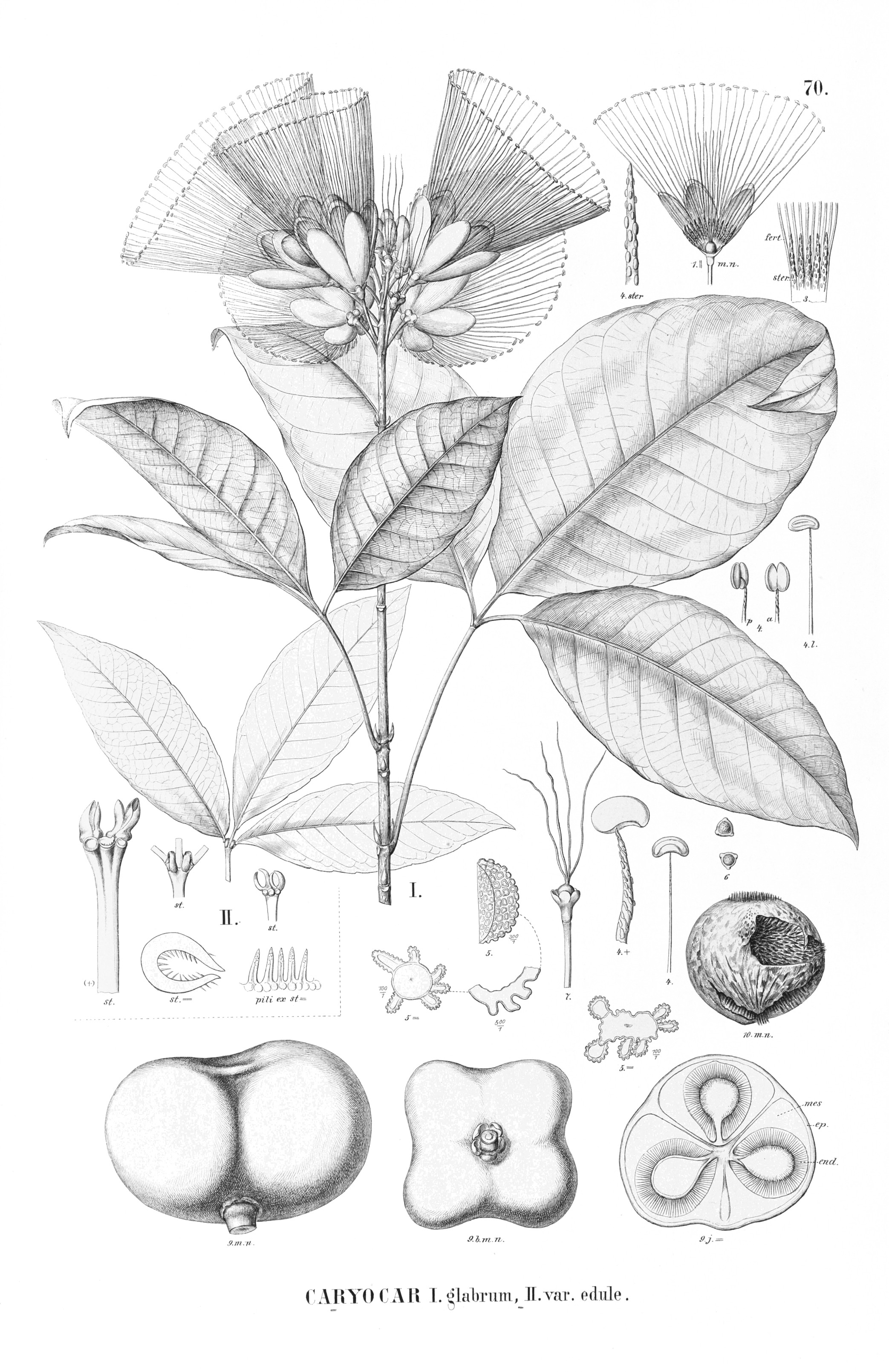 Illustration of Caryocar glabrum